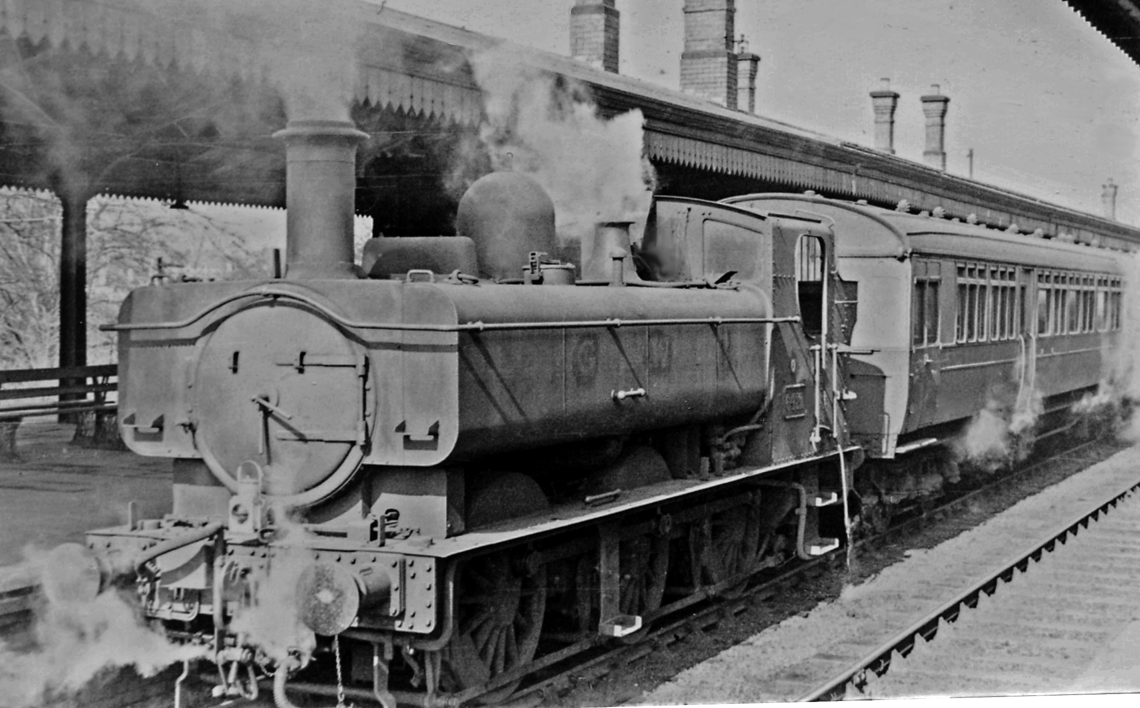 Auto-train for Dudley at Stourbridge Junction. The auto-train is propelled by Collett auto-fitted 0-6-0PT No. 6422 (built 8/35, withdrawn 9/62).